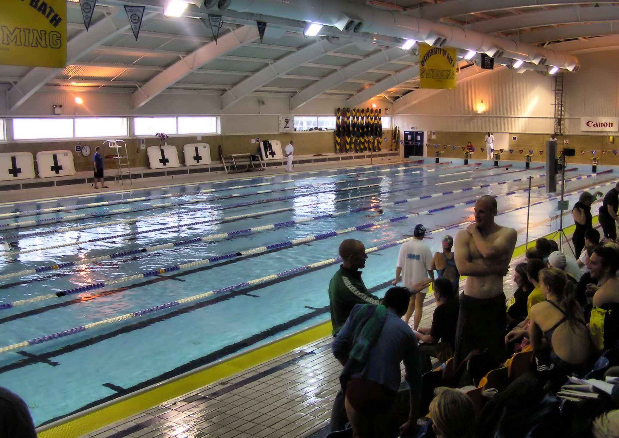 The University of Bath Sports Training Village 50 metre swimming pool, Bath, England. The depth is constant at 2 metres. The yellow and black canoes are for water sport. The black crosses on the white boards are for creating a 25 metre section. The pool was on hire for the Amateur Swimming Association (South Western) Masters Competition (30th September 2007), some of the audience and competitors are on the right. Photographed by Adrian Pingstone in September 2007 and placed in the public domain.